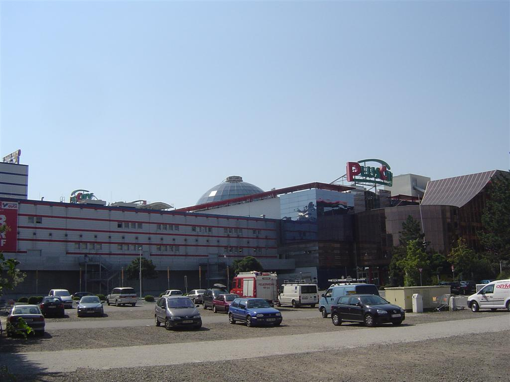 Shopping center Plus City, Pasching, Upper Austria, looking south east